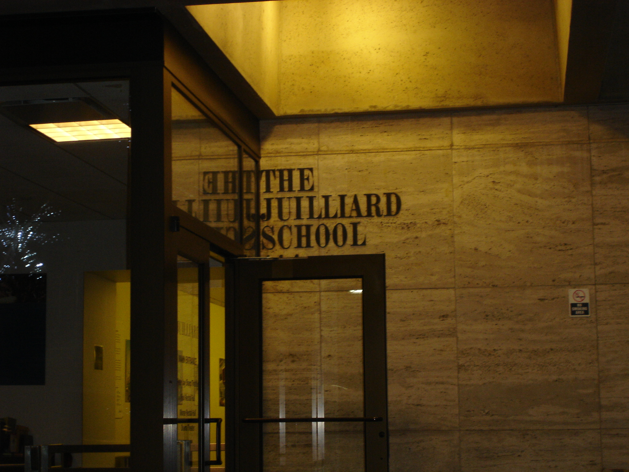 This photo is of Wikipedia Takes Manhattan location code 18, Juilliard School.